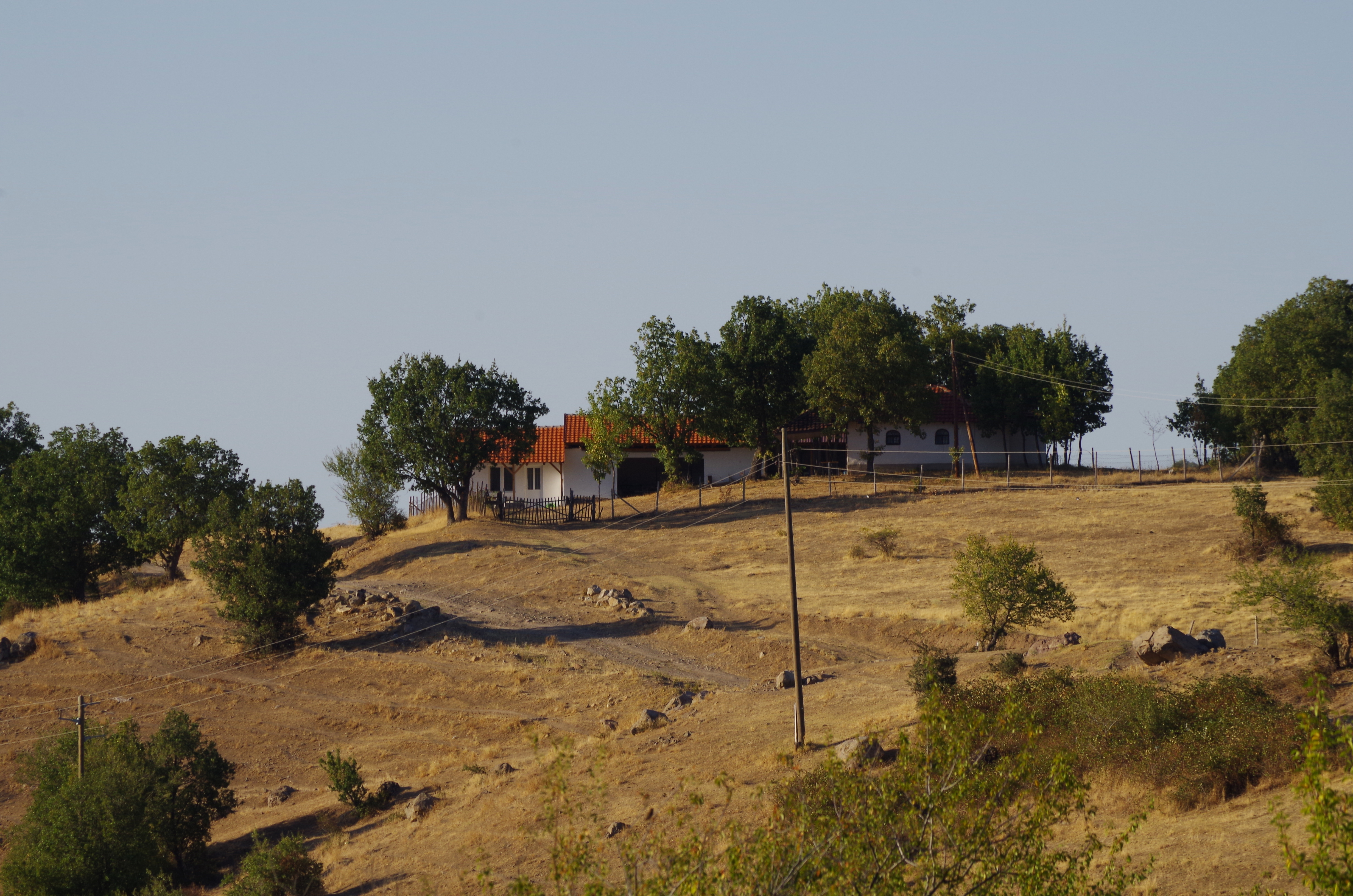 Bojančište Monastery in the eponymous village